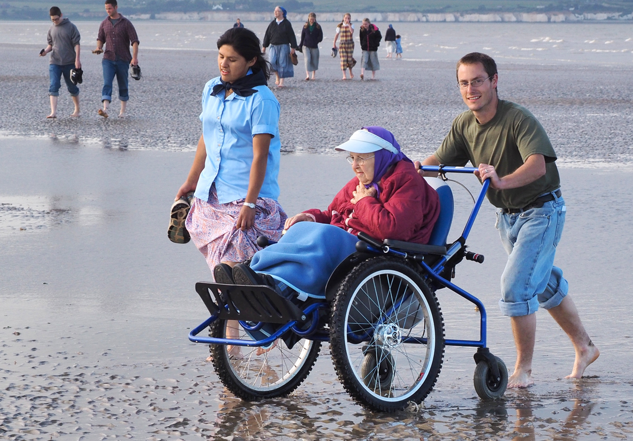 Bruderhof members by the sea